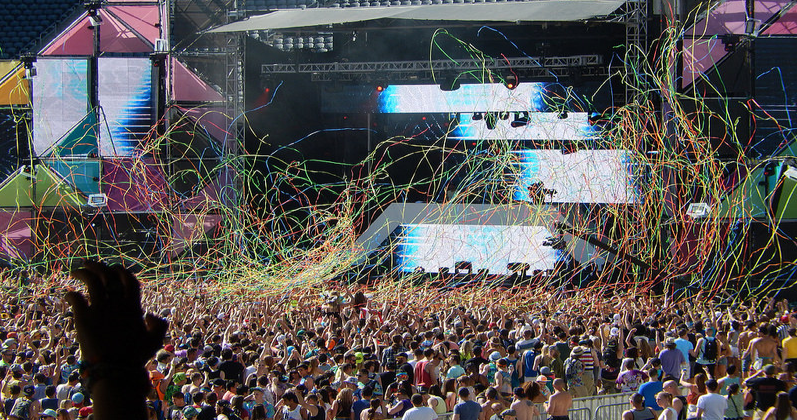 Dyro performing at Chicago's Soldier Field during the 2013 edition of the Spring Awakening Music Festival